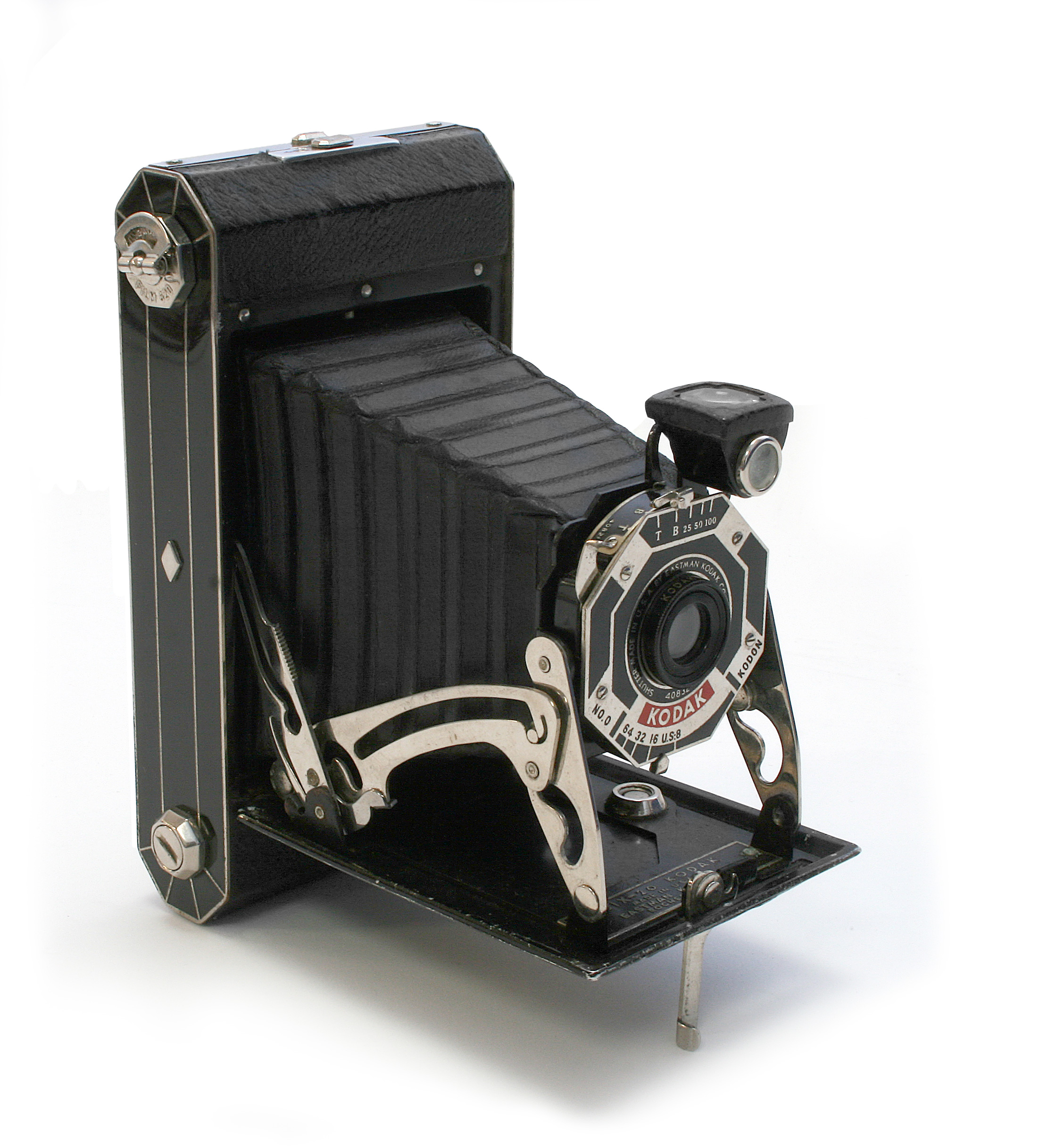 A Kodak Six-20 camera, made in the 1930's. This camera used Kodak 620 film, and featured an astigmatic 100mm f6.3 - f32 lens.